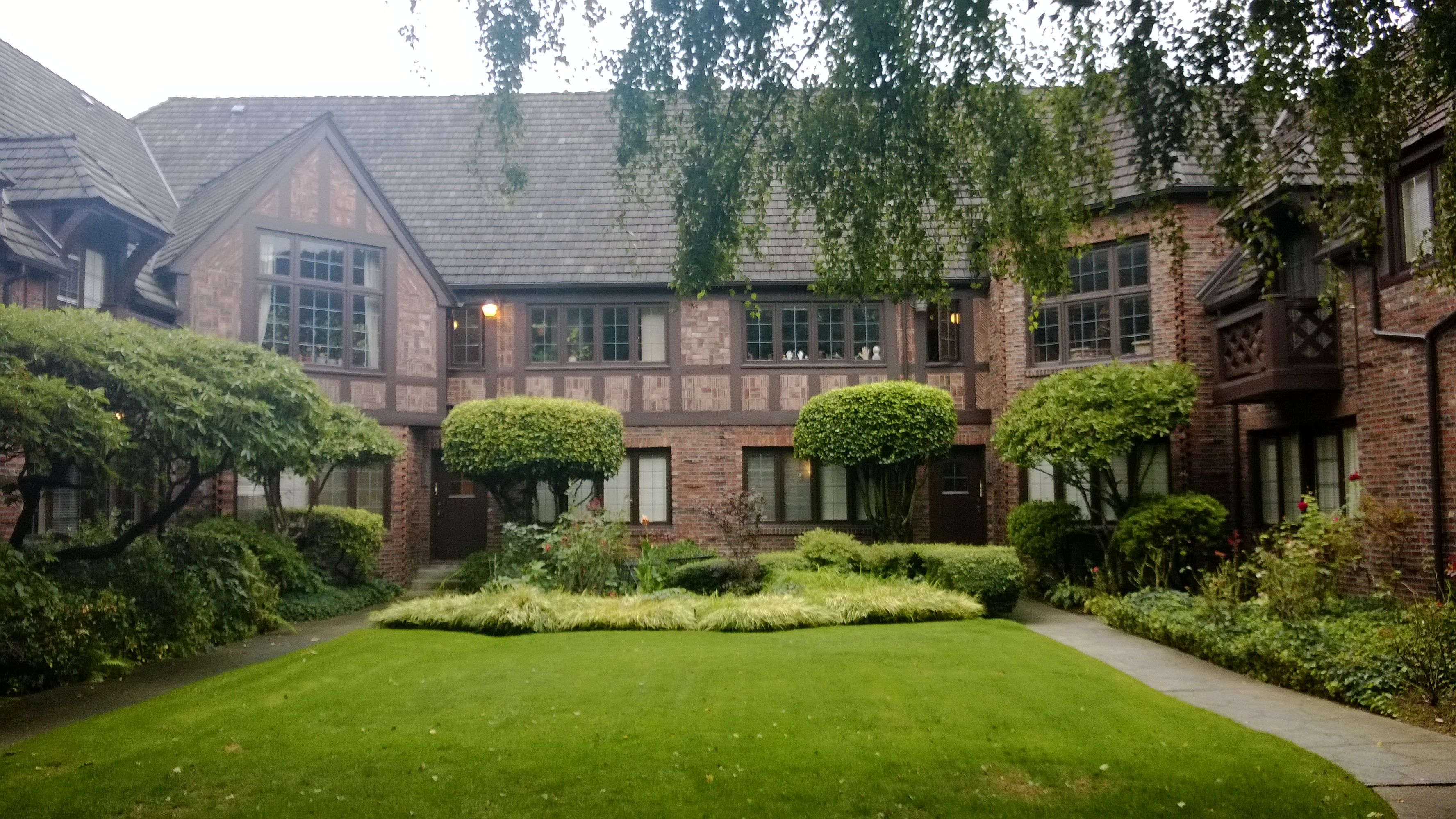 Courtyard of an apartment built by Fred Anhalt in Seattle, WA.